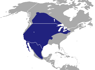 American Badger (Taxidea taxus) range, with national borders added